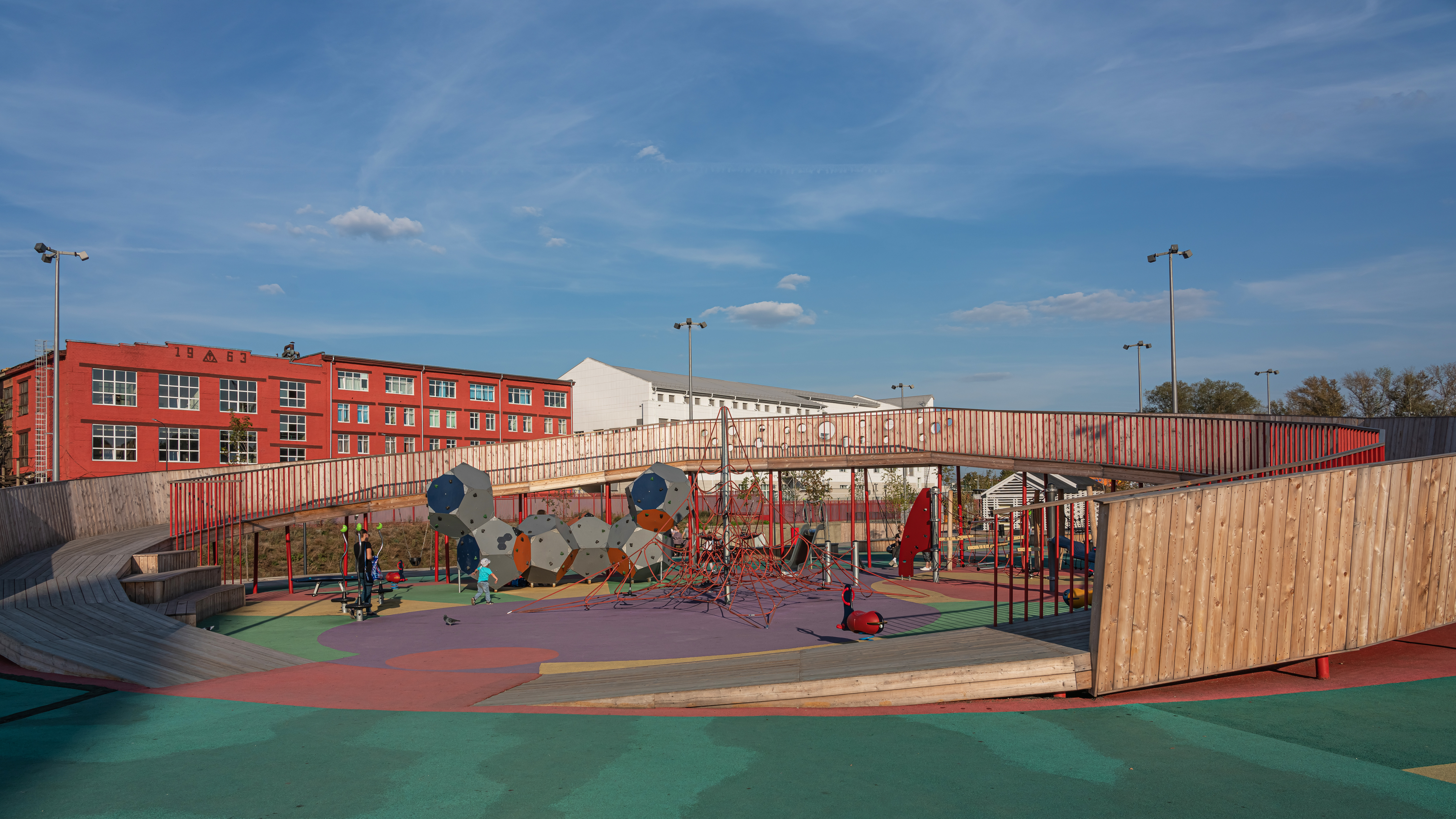 Kazanskaya Embankment (after the 2018 re-design) in Tula, Russia